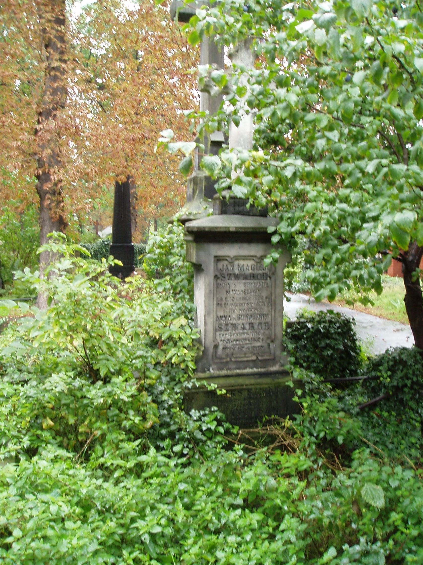 Headstone of Jan Maciej Hipolit Szwarce, lutheran cemetery in Warsaw